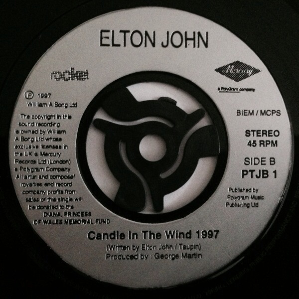 Elton John - Candle In The Wind 1997. A-side label of the 1997 7- inch single (double A-side).